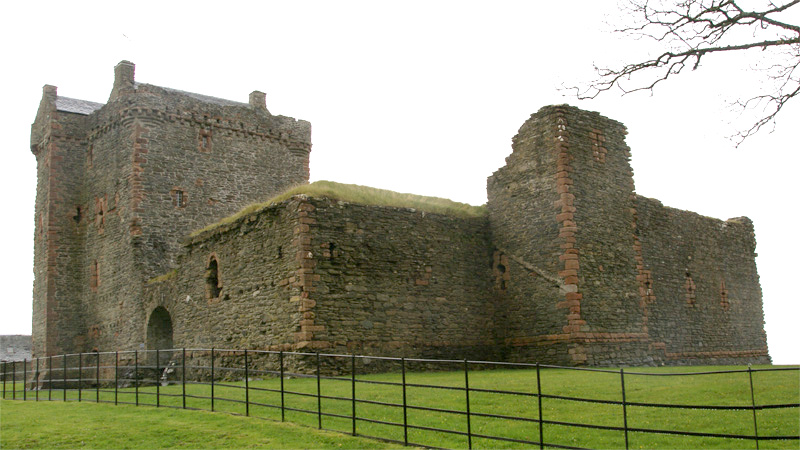 Skipness Castle, Argyll and Bute, Scotland - view from north west